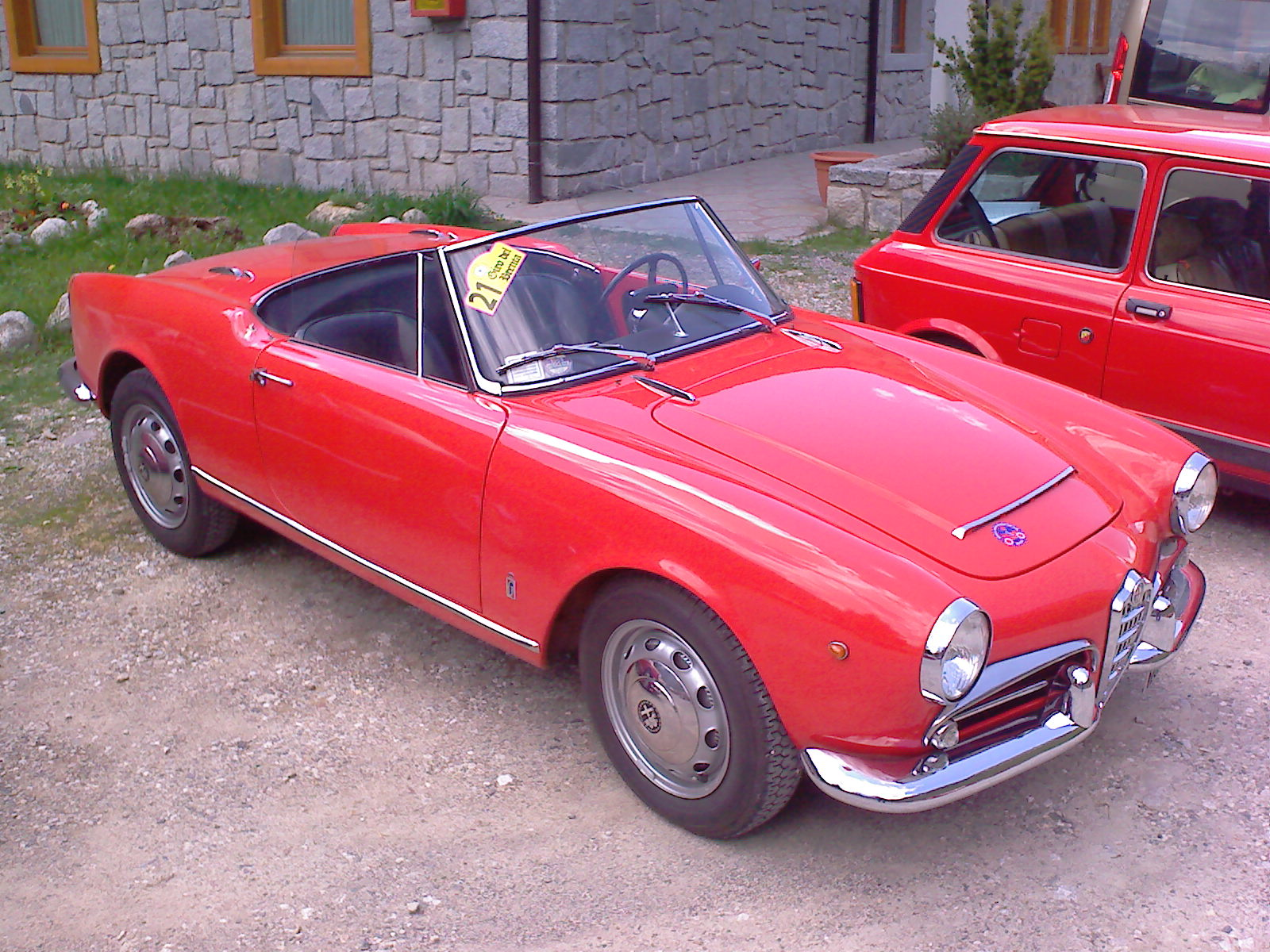 Alfa Romeo Giulia Spider. Picture taken at Daone (Trento, Italy), on 30 april 2009